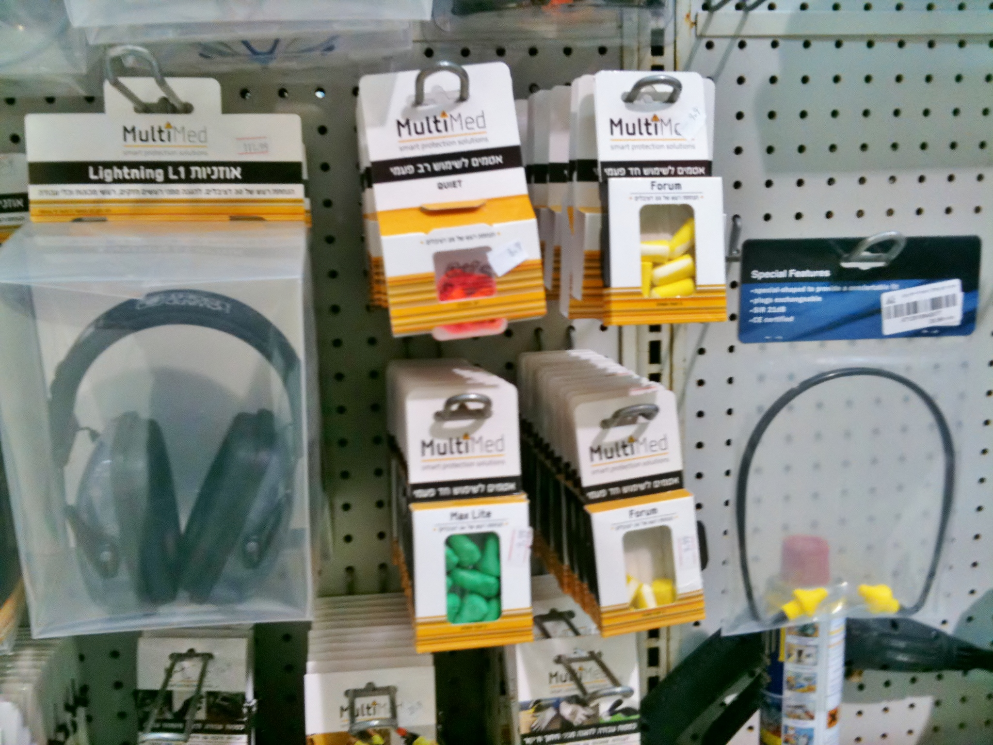 Ear plugs of many kinds in a sale